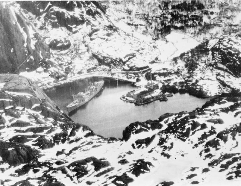 Royal Air Force Coastal Command, 1939-1945. The German supply- and prison-ship ALTMARK, moored in Jossing Fjord, Norway; photographed by a Lockheed Hudson of No. 18 Group prior to the raid by HMS COSSACK on 16 February 1940.